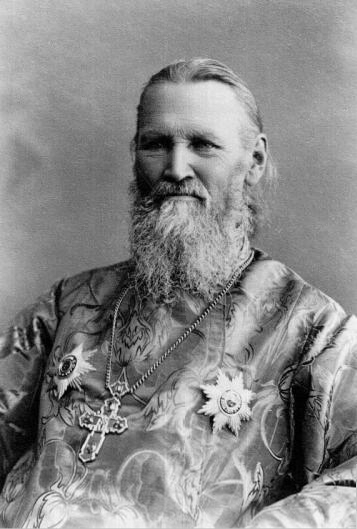 Saint John of Kronstadt, 1900.